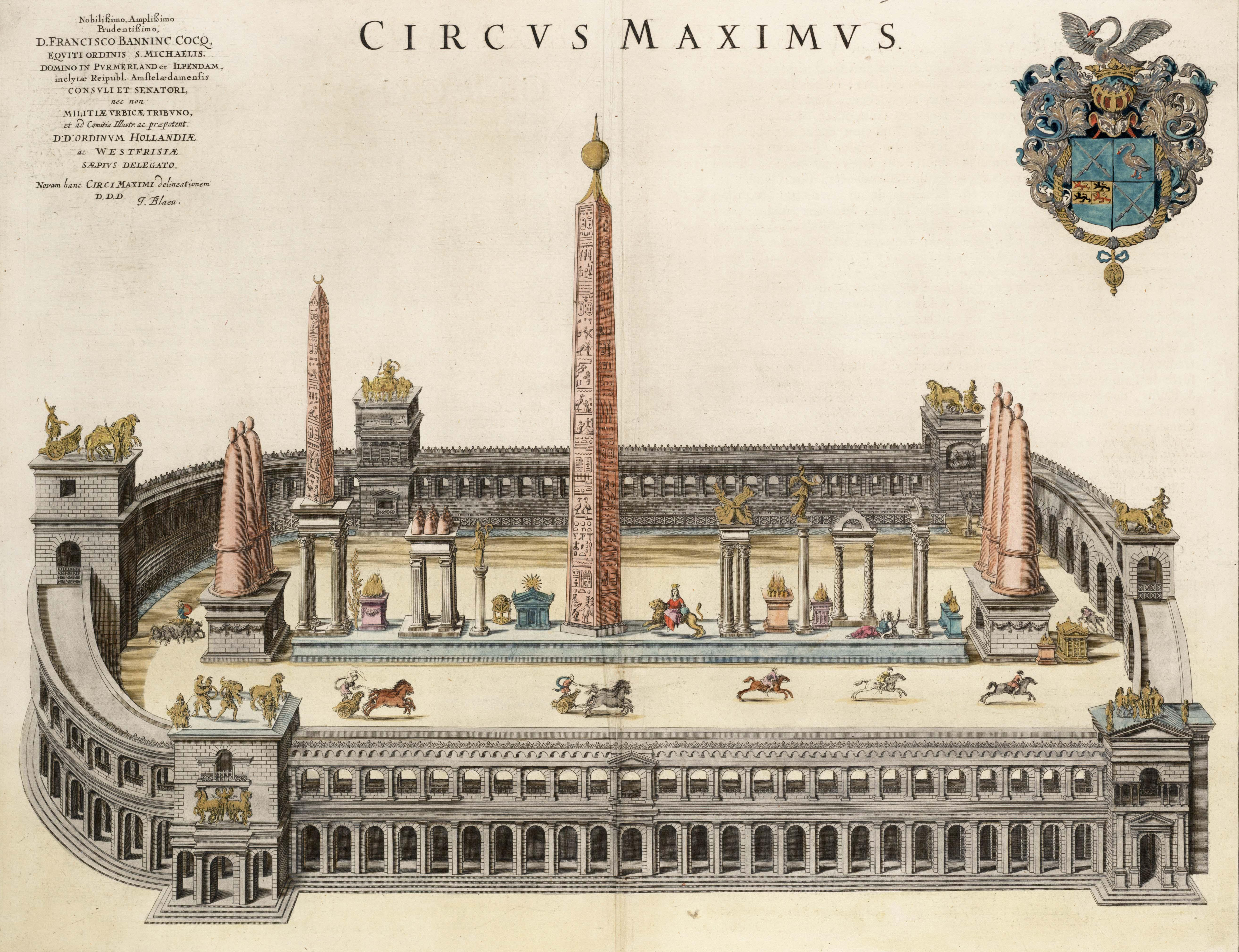 Circus Maximus